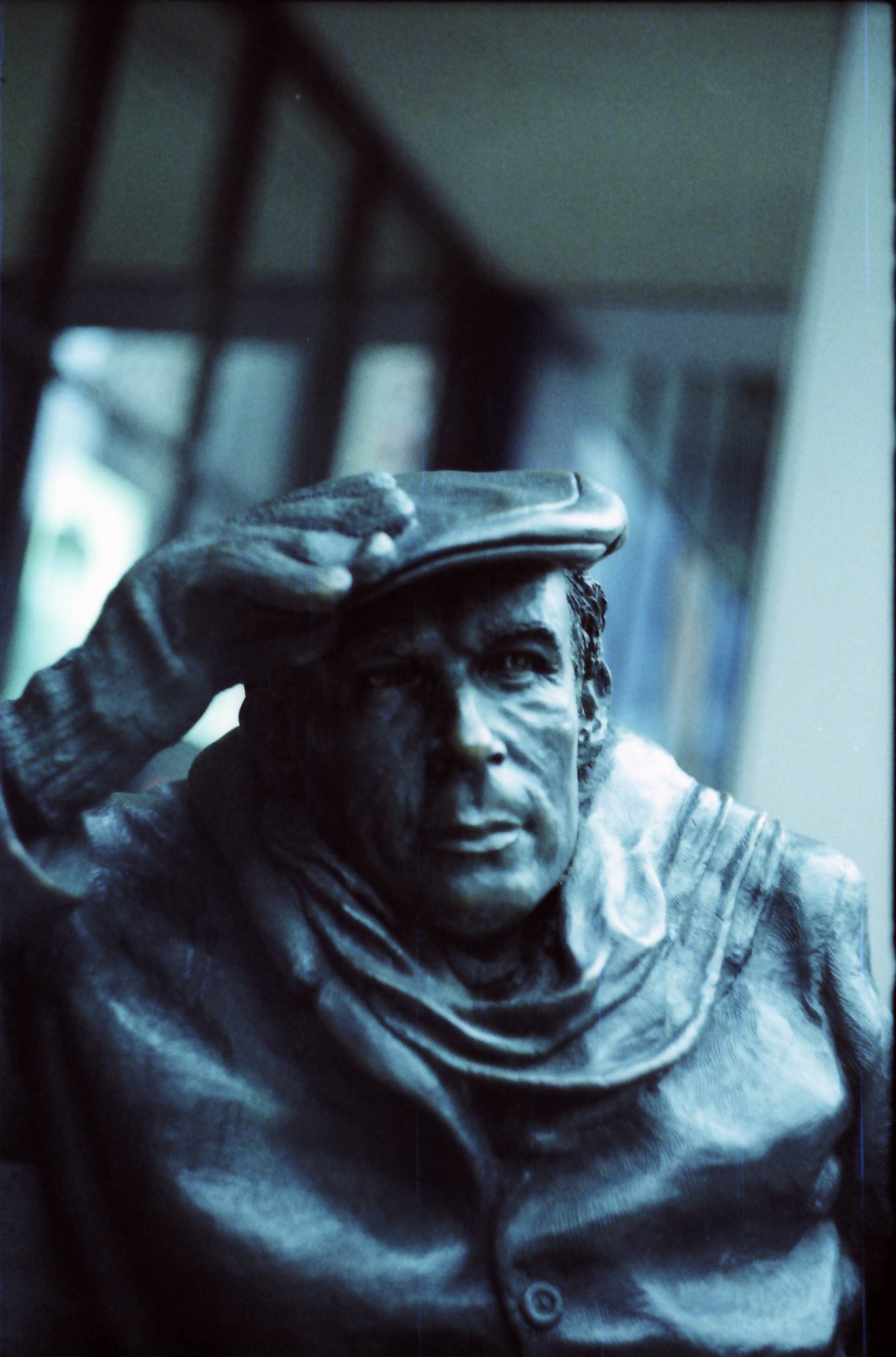 Statue of Glenn Gould in Toronto, Ontario, Canada.